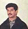 Qusay Hossein, son of Saddam Hossein pictured in the 1980s